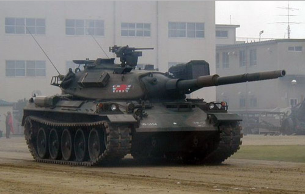 Тип74